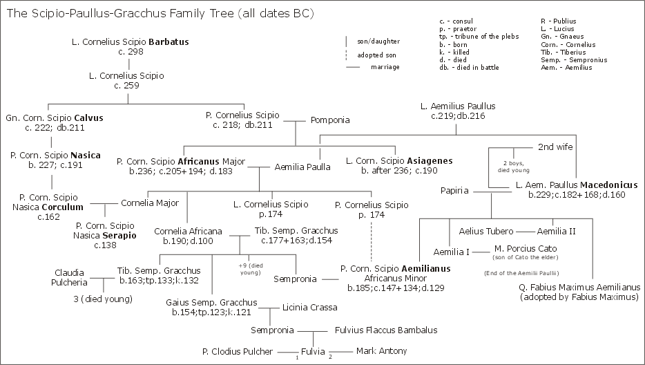 Scipio-Paullus-Gracchus family tree. See Scipio-Paullus-Gracchus_family_tree